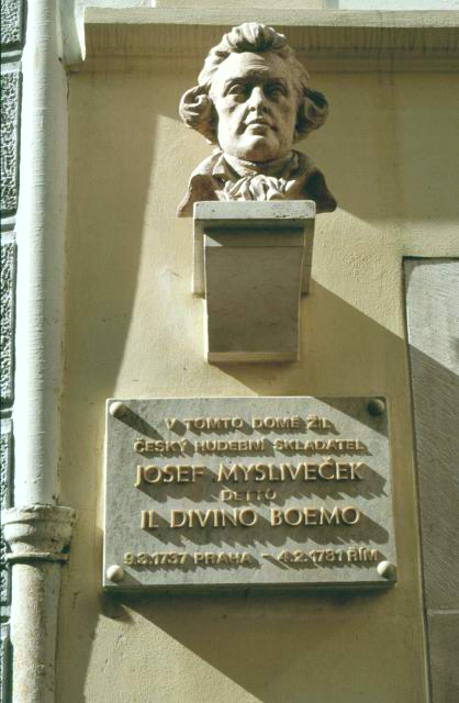 Myslivecek's bust on his house